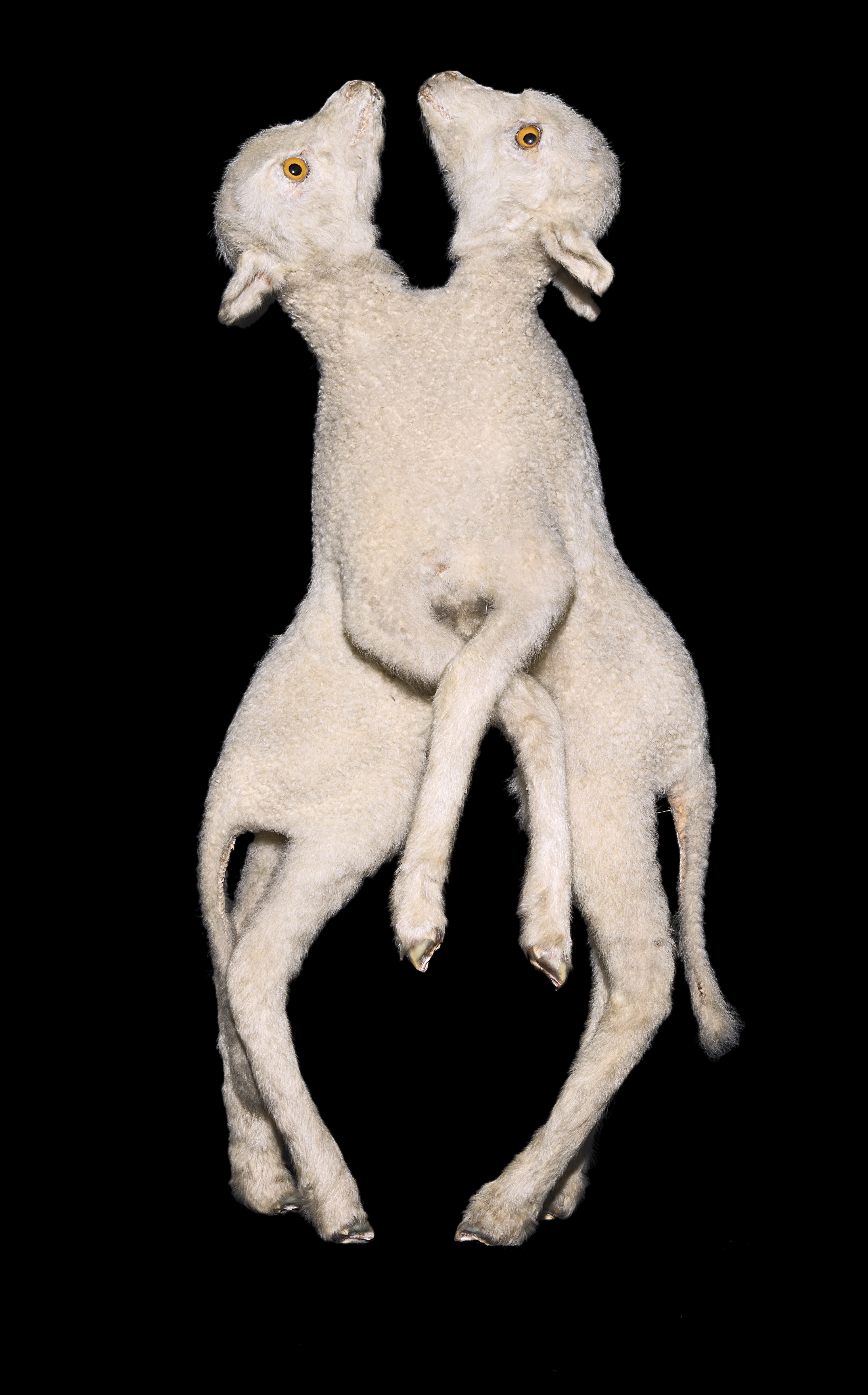 Conjoined twins lambs Former collection : Naturalization and collection Jules Berdoulat last quarter of the nineteenth century. Size : 66 x 37.5 x30 cm